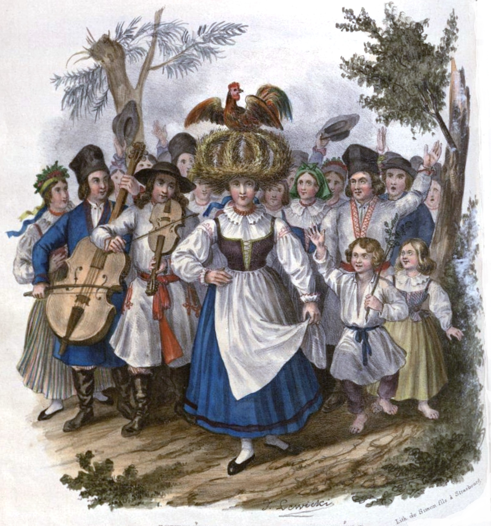 Roundabout pl. "Okrężne". This ceremony was connected with the end of the harvest and concentrated upon the harvest crown. Okrezne comes from the Polish word roundabout (to circle). Finish of harvest in Sandomir-Kielce region called "Okrężne".